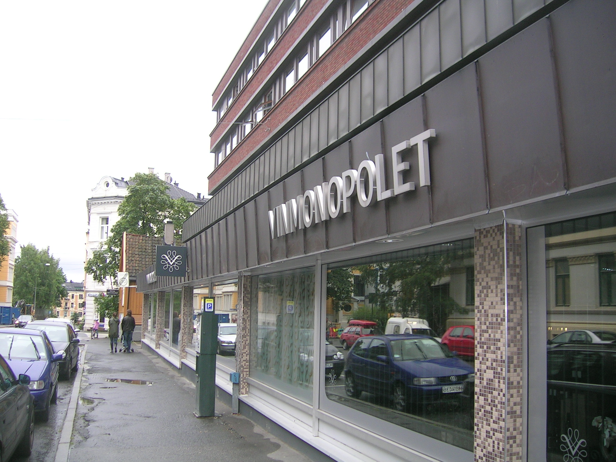 A Vinmonopolet shop (Briskebyveien), Oslo